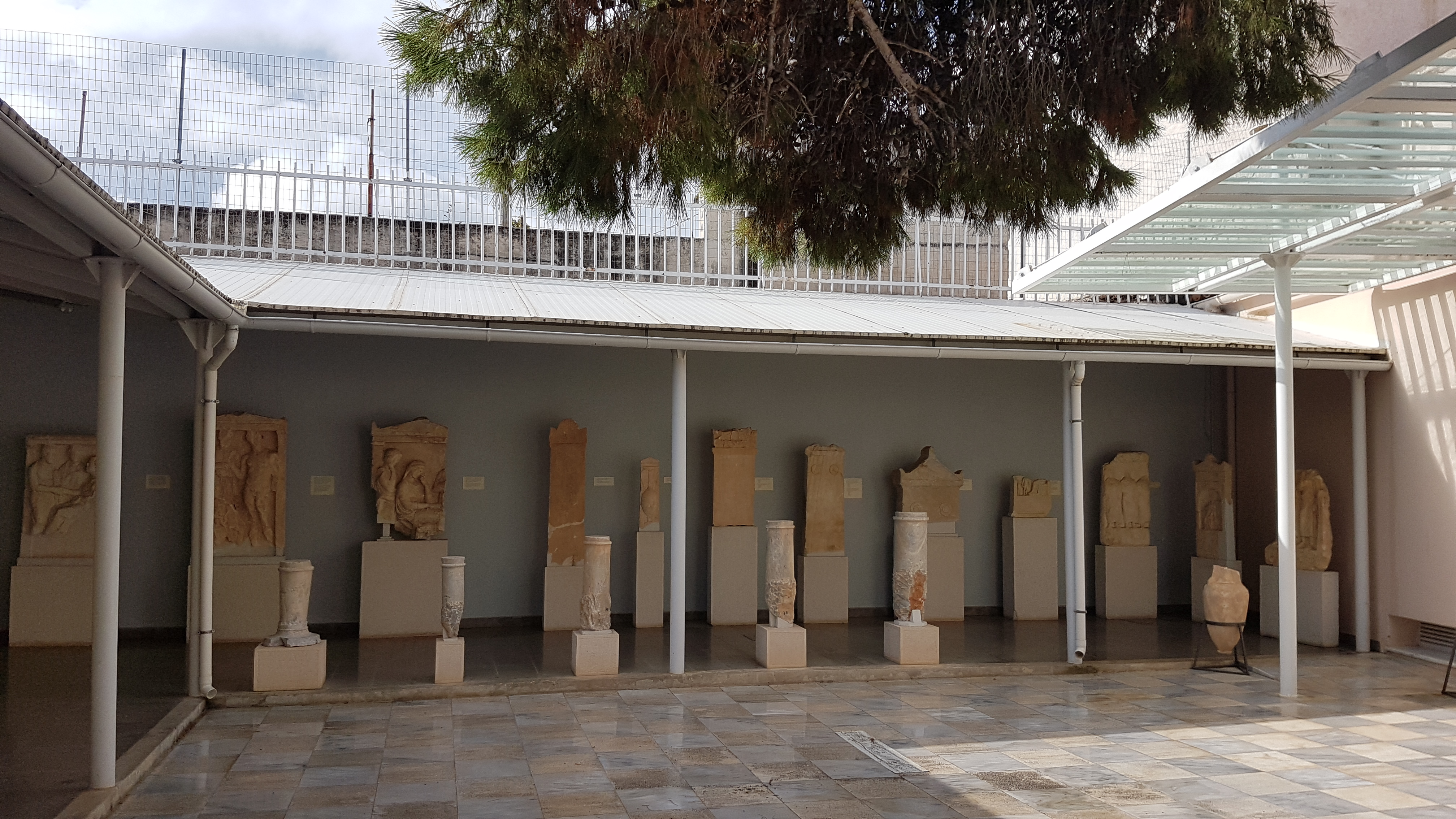 Salamis (City), Salamis, Greece: Archaeological Museum: Courtyard of museum.